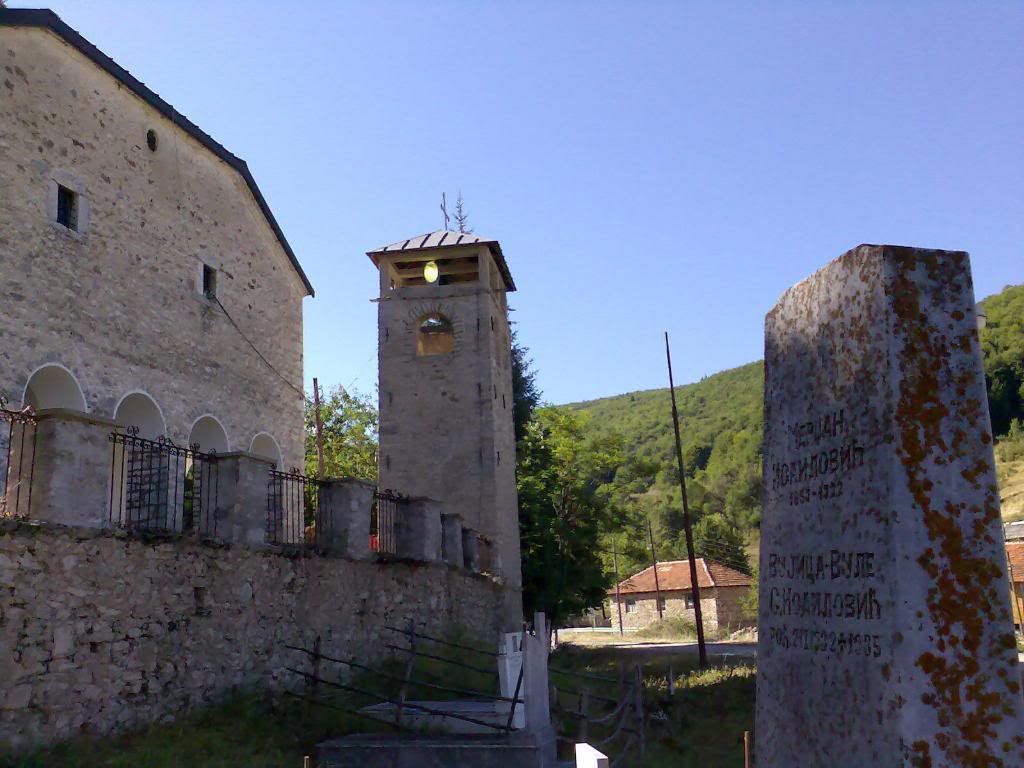 Village of Leunovo, Republic of Macedonia